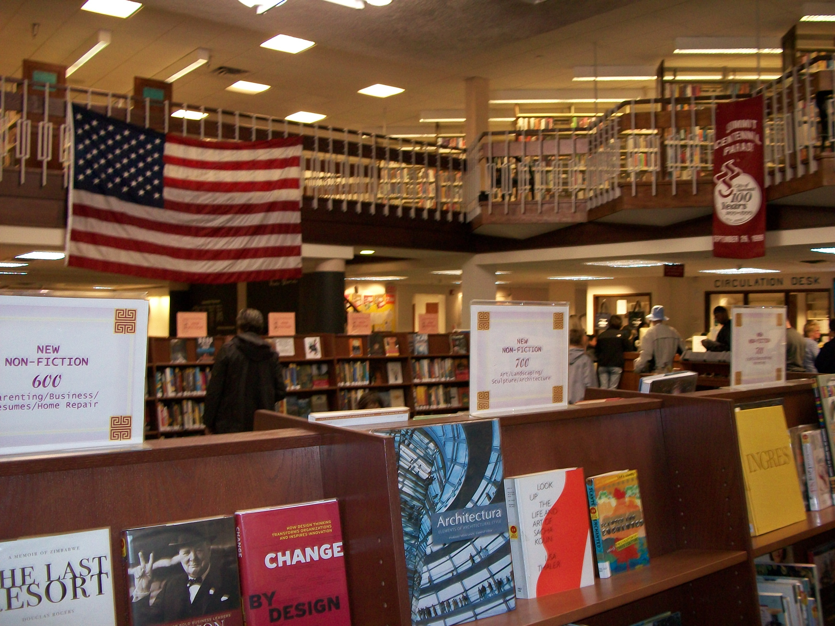 Inside the Summit Public Library, in the main lounge area, in October 2009, in Summit, New Jersey.